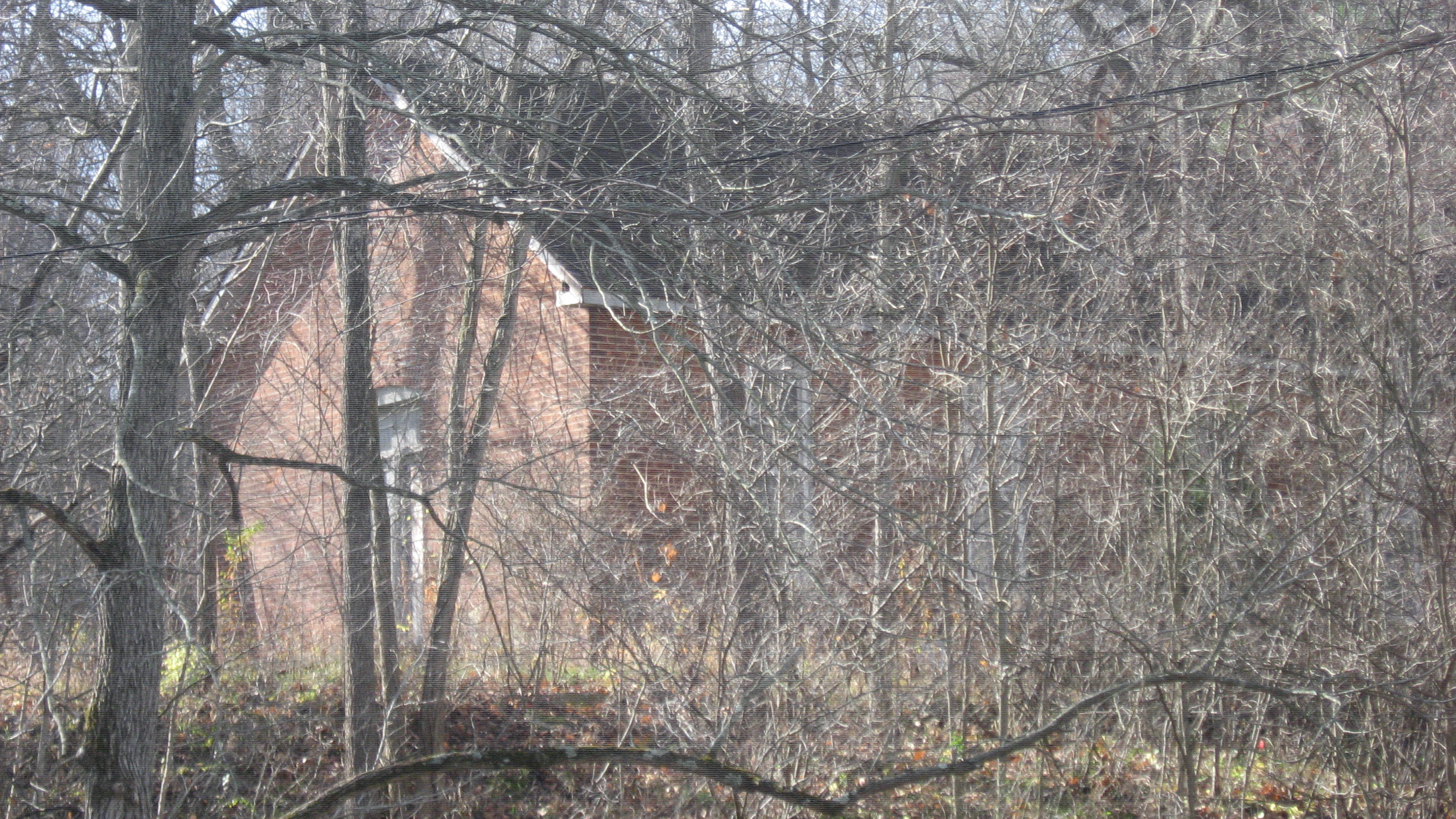 View through the trees of the Long Schoolhouse, located along Jordan Road south of Martinsville in Washington Township, Morgan County, Indiana, United States. Built in 1883, it is listed on the National Register of Historic Places.